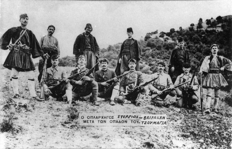 Cheta of andarts, lead by Sterios Vlahveis